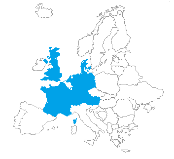 Geographical coverage of EuroSpec in Europe